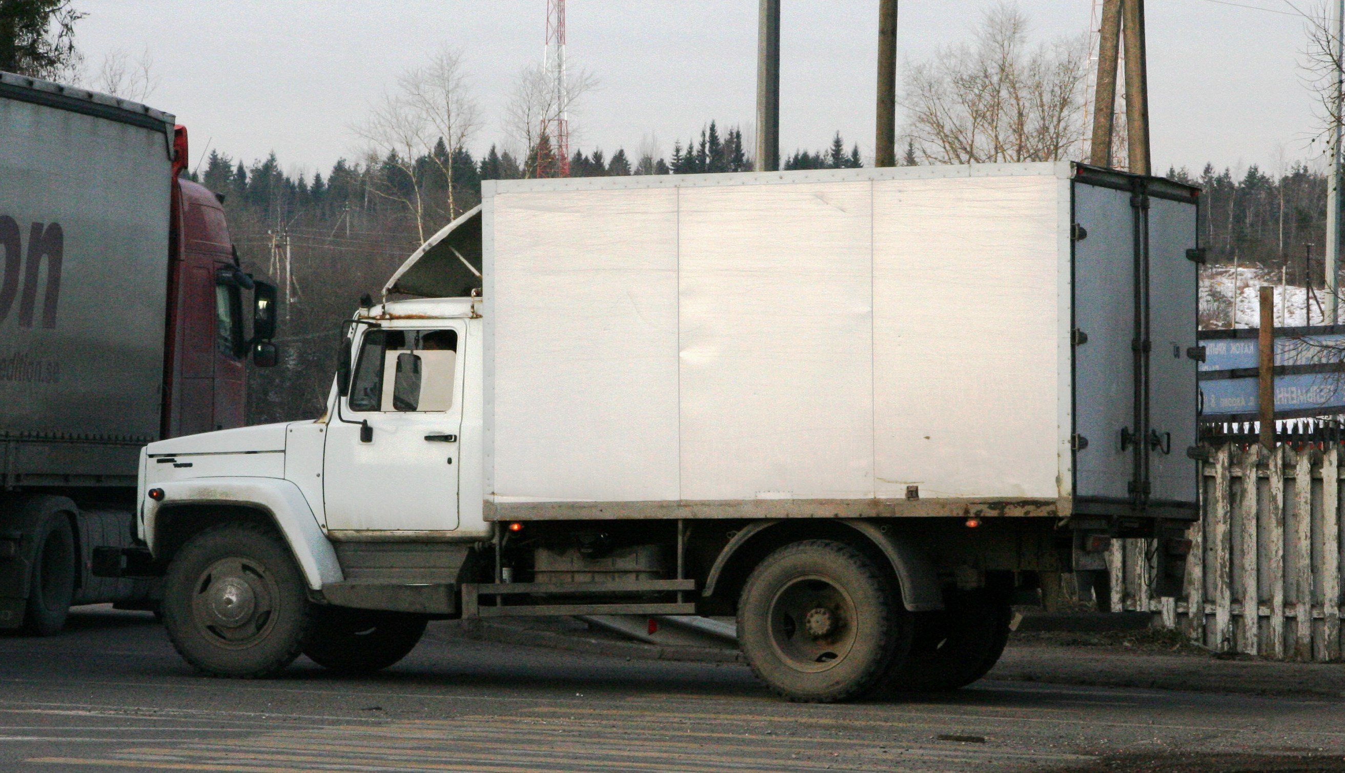 a GAZ-3307 in northern Russia